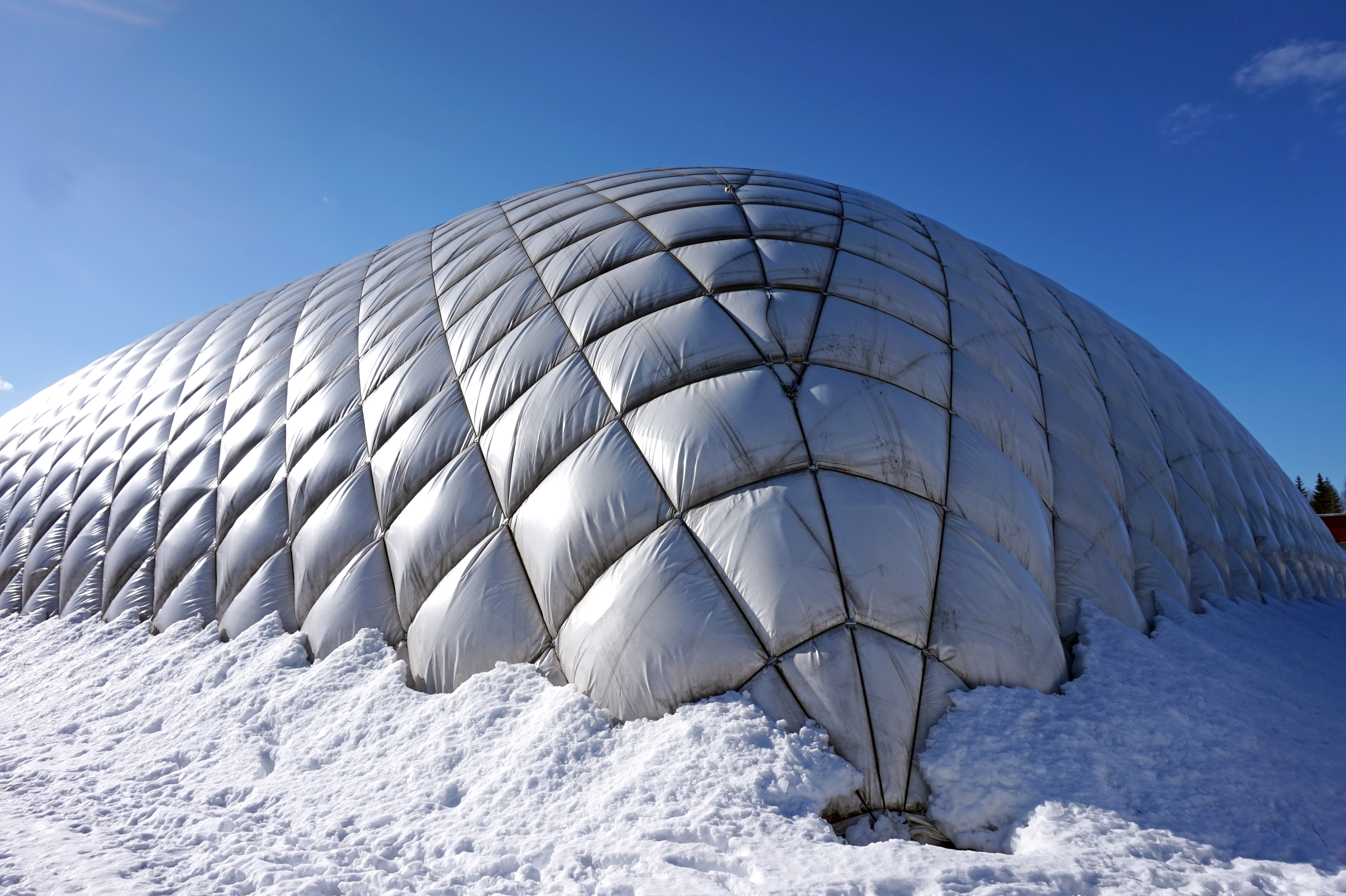 Airdome of Killeri sports center in Jyväskylä.